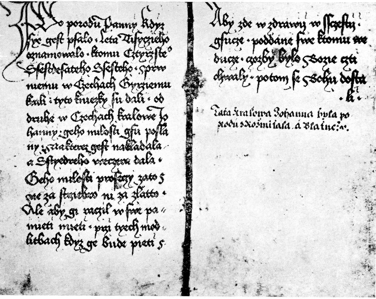 prayer book of George of Podebrady, King of Bohemia